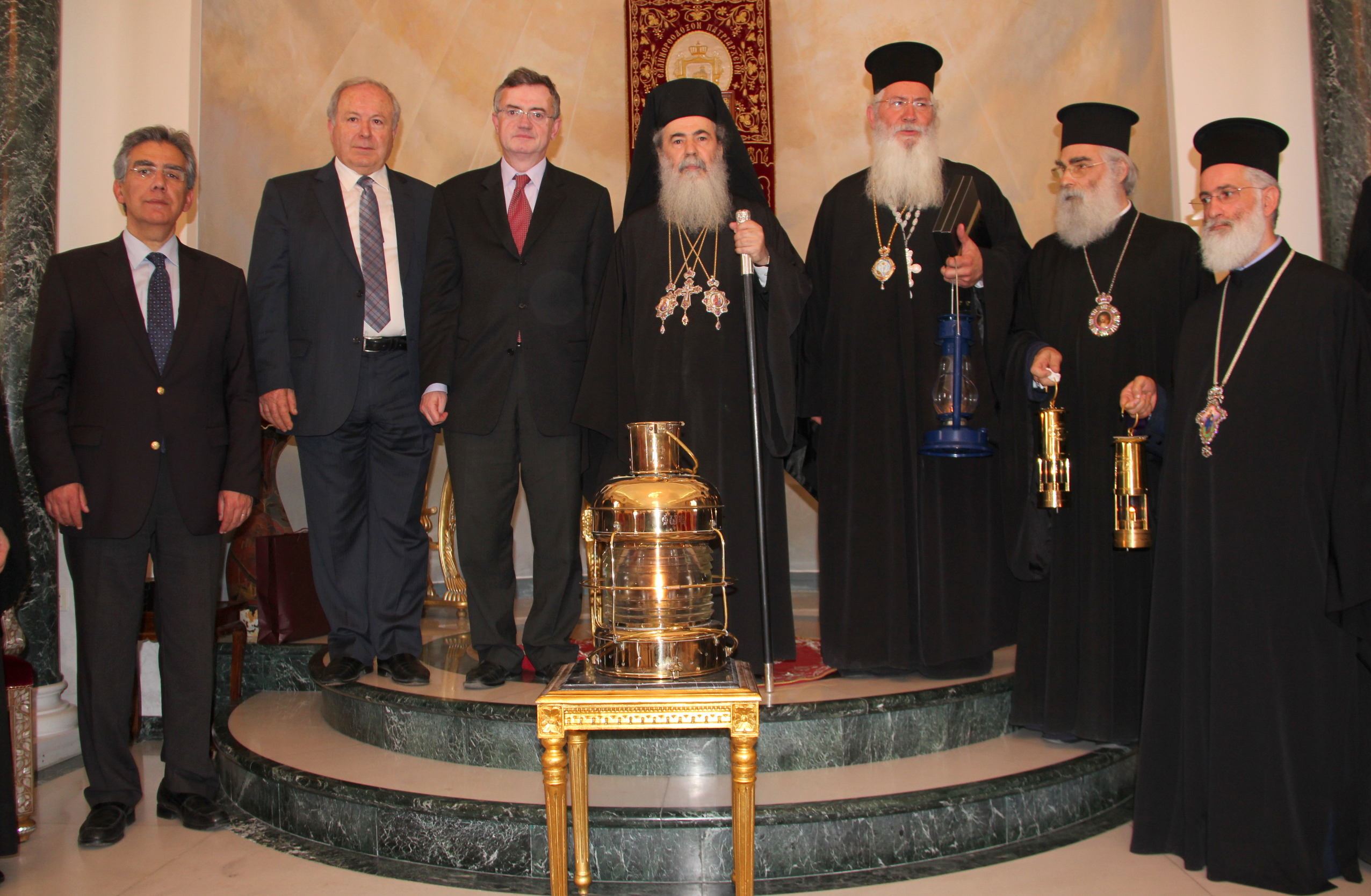 Deputy Foreign Minister Kyriakos Gerontopoulos went to the Holy Saturday morning in Jerusalem to attend the Ceremony of the Touch of the Holy Light in the Church of the Resurrection of the Christ